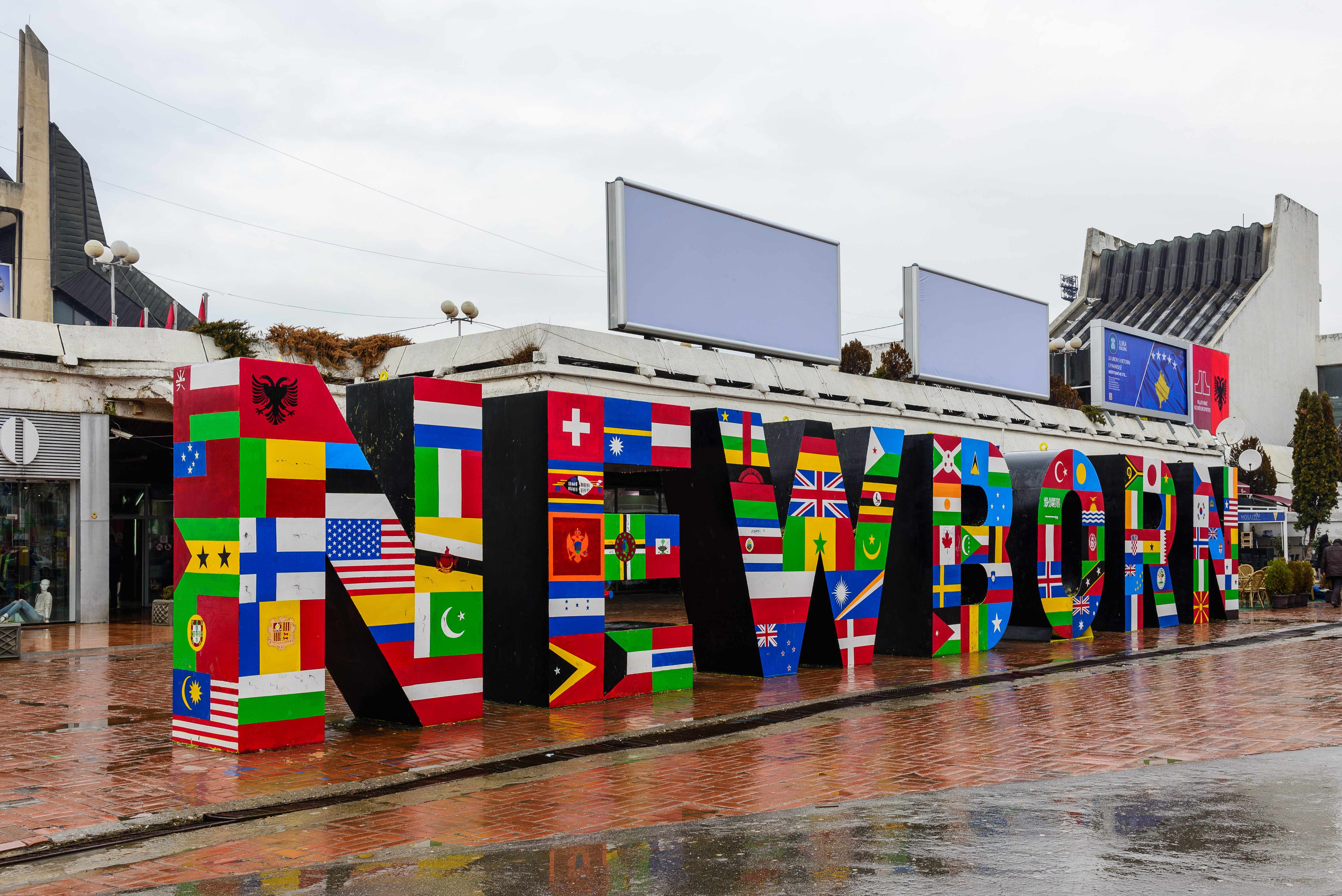 The Newborn monument inaugurated for Kosovo's Independence on the 17/02/2008. Repainted painted with flags of the countries that have recognized Kosovo's independence.